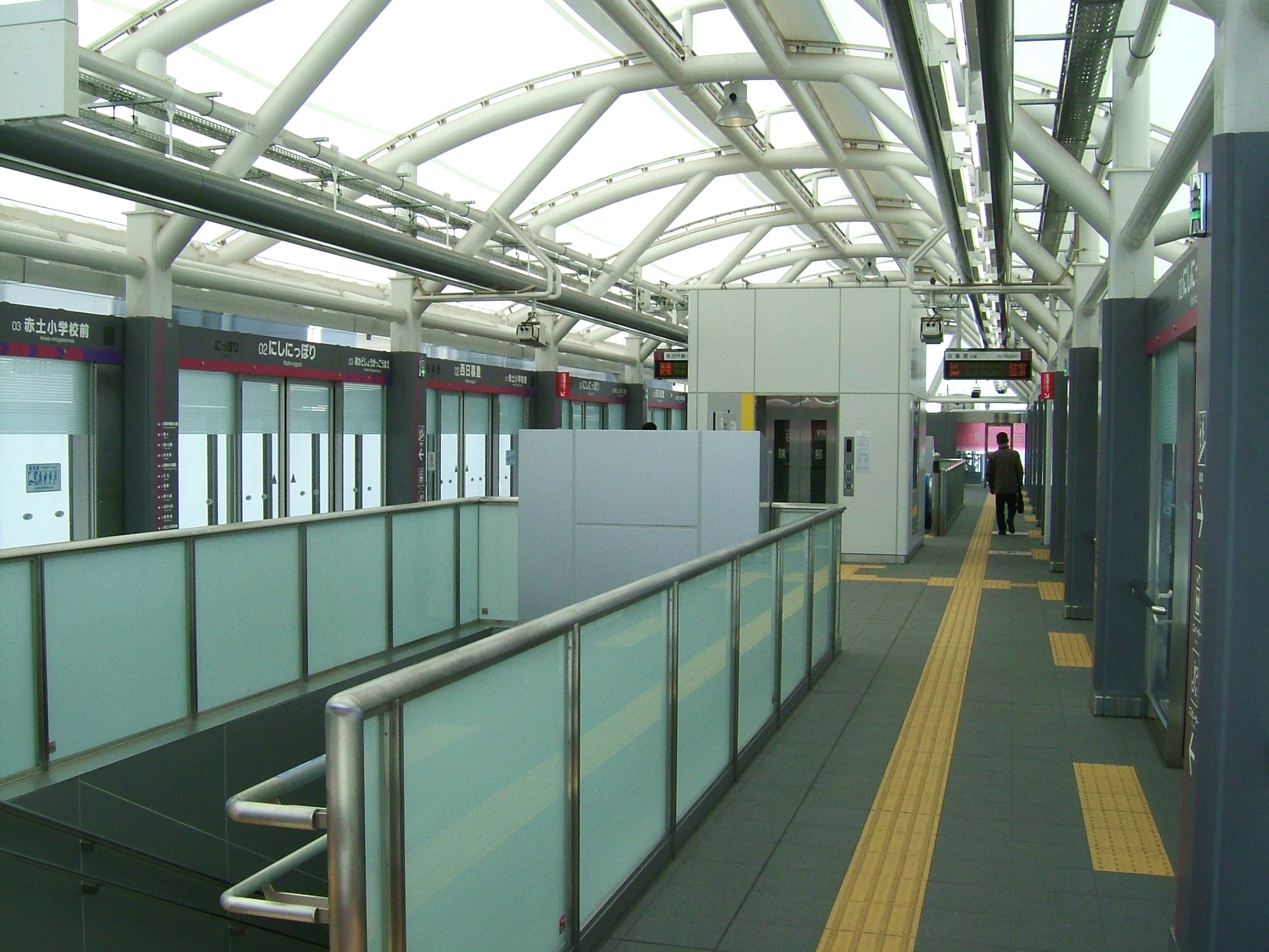 The Nippori-Toneri Liner platforms at Nishi-Nippori Station in Tokyo